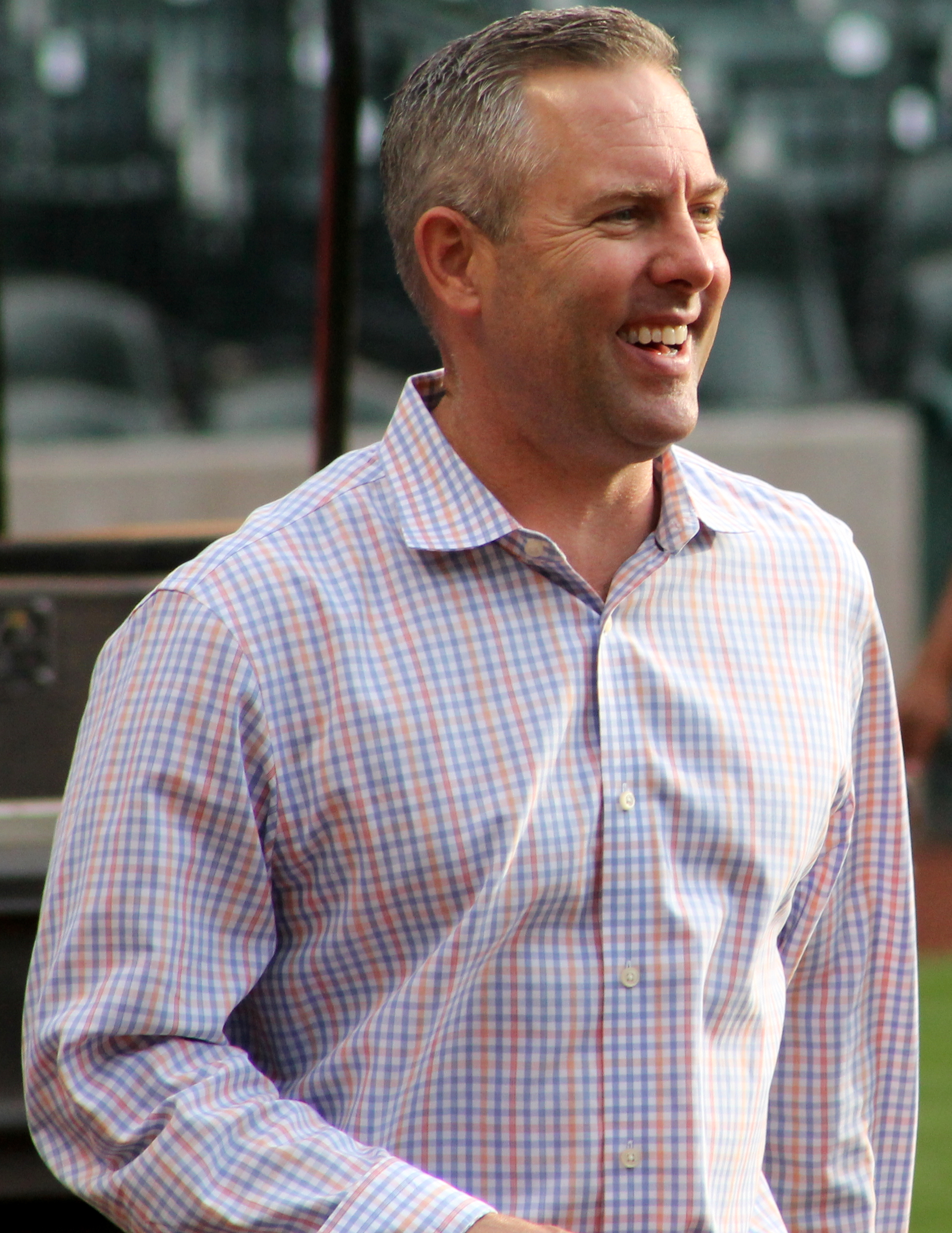 Houston Astros president Reid Ryan after a May 2014 game in Houston.